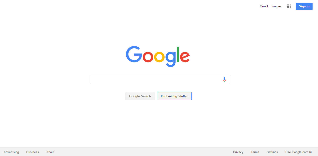 After pressing the TAB button twice, the word 'lucky' would be other word else.